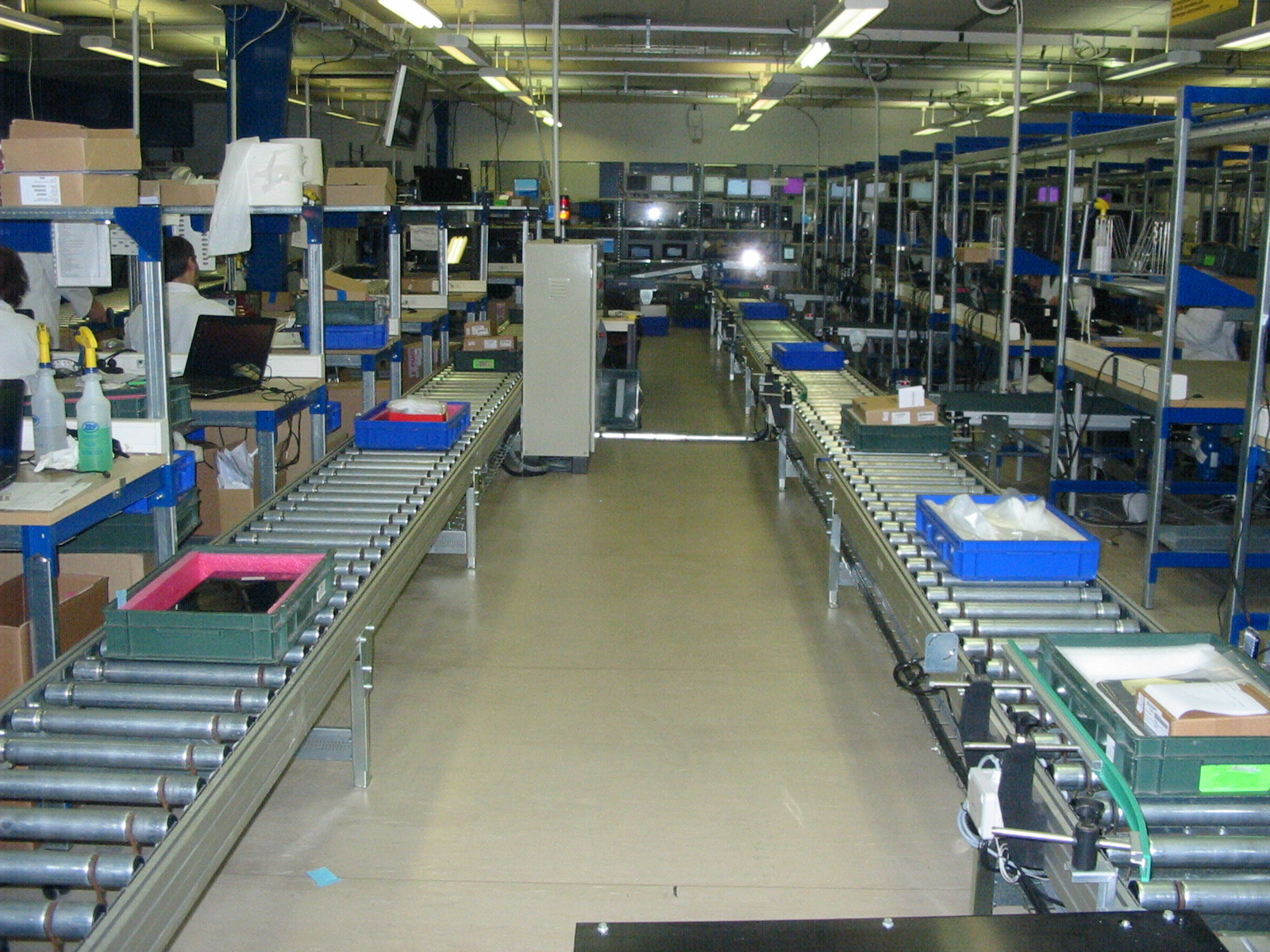 Driven roller conveyors